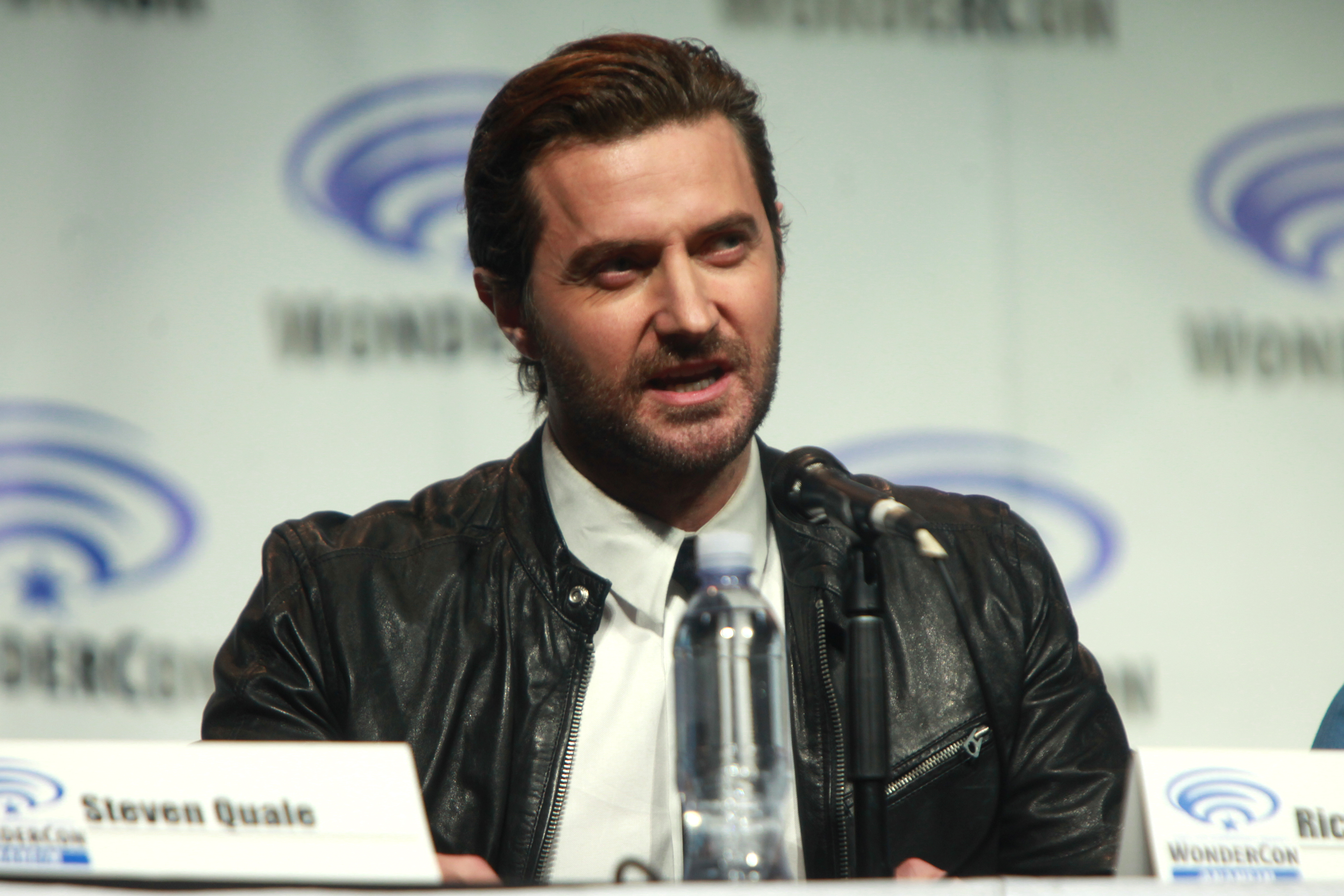 Richard Armitage speaking at the 2014 WonderCon, for "Into the Storm", at the Anaheim Convention Center in Anaheim, California.